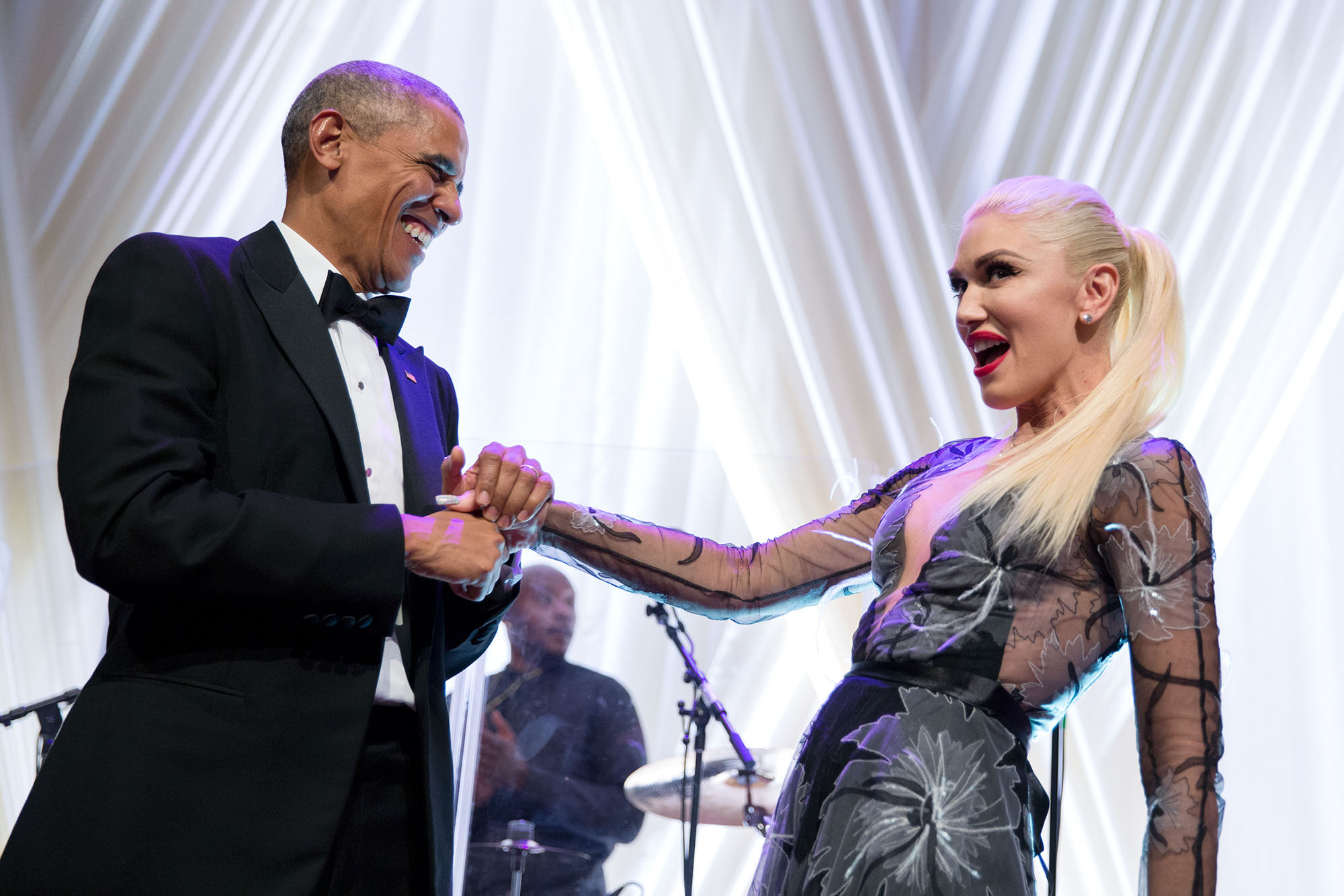 President Obama shares a laugh with Gwen Stefani on stage. (Official White House Photo by Pete Souza)